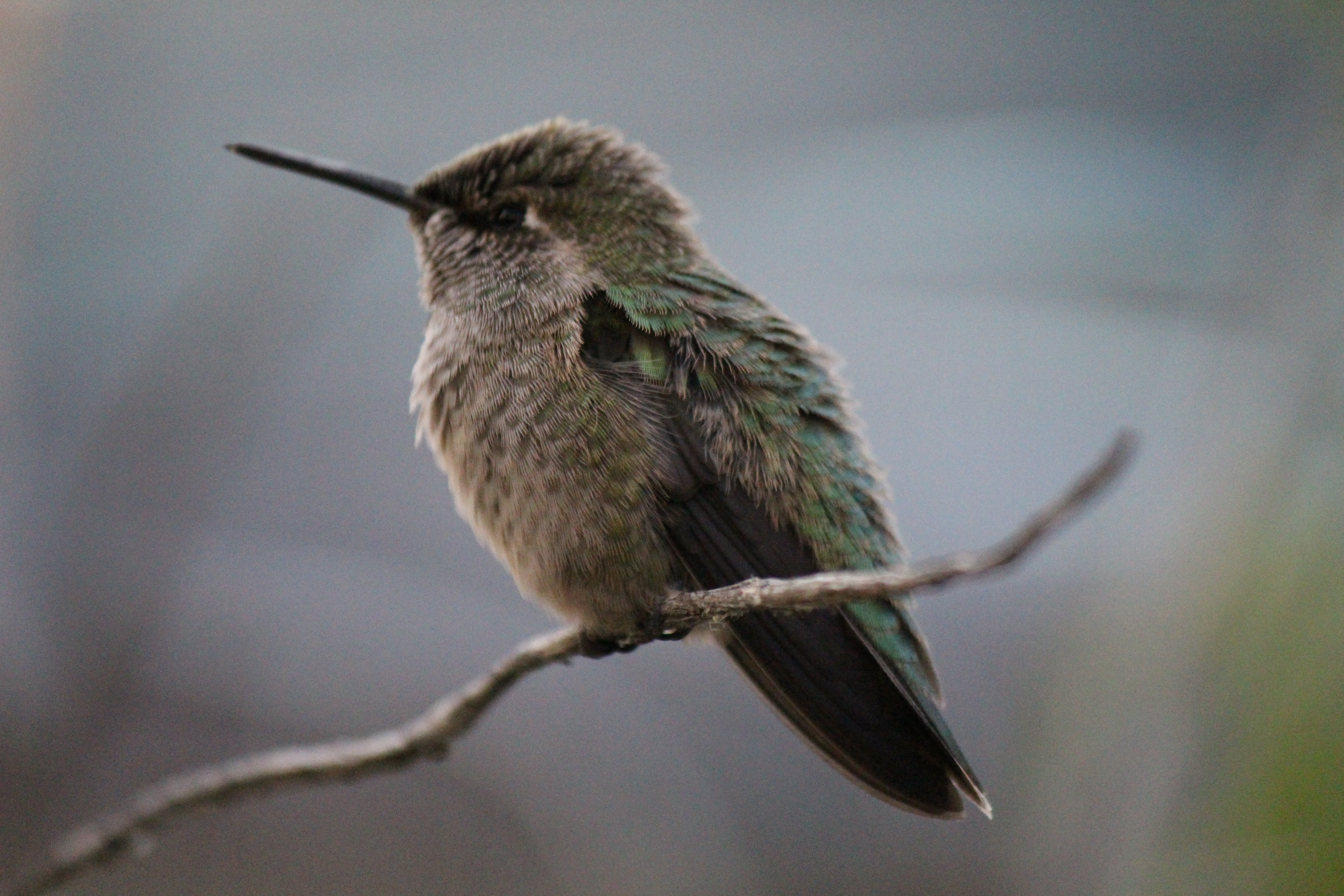 Anna's hummingbird, a male fledgling